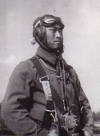 Second lieutenant Mitsuyama (Fumihiro, Mitsuyama, born as Tak Kyong-Hyong)